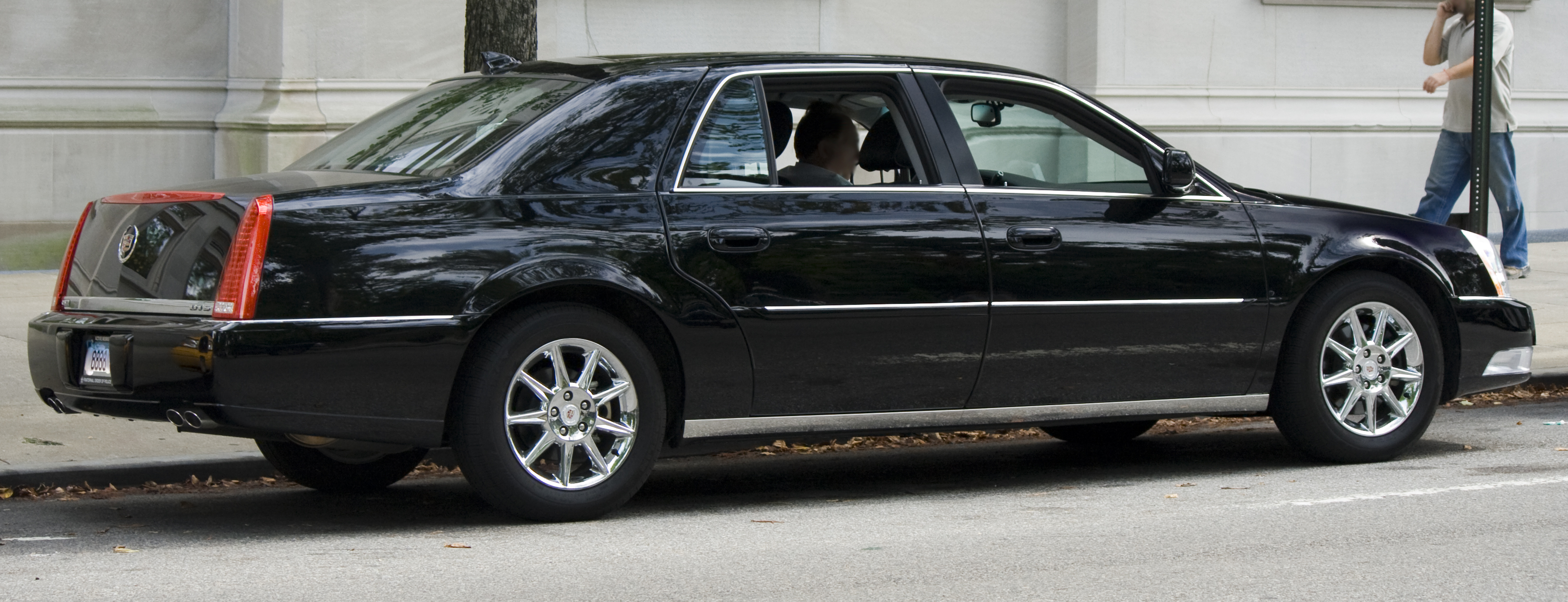 2007 Cadillac DTS-L, a lightly stretched version available from November 2006. This was built by Accubuilt at Cadillac's behest. From MY 2008, a longer and more natural-looking rear door was used.